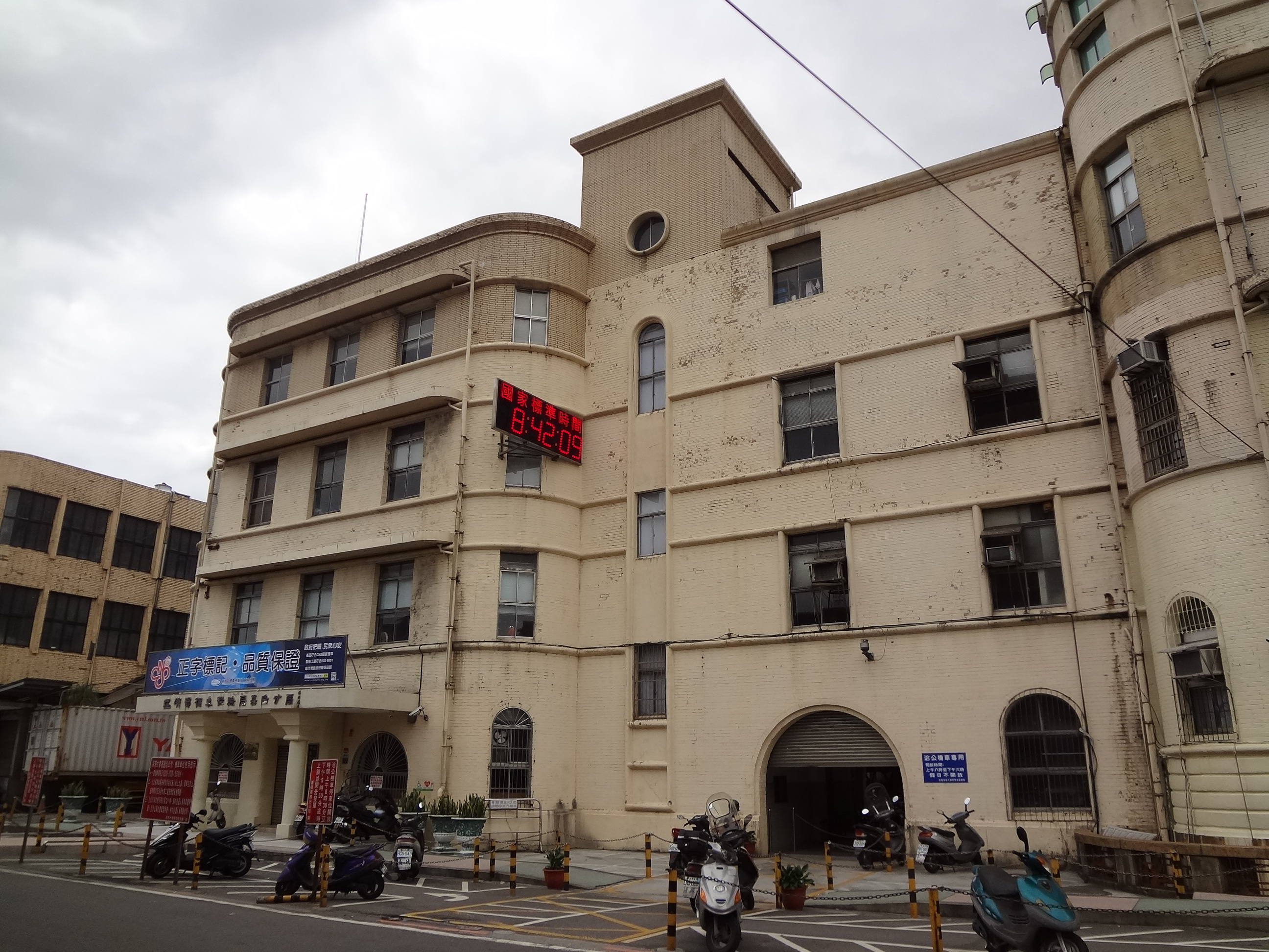 Bureau of Standards, Metrology and Inspection of the Ministry of Economic Affairs of the Republic of China - Keelung Branch